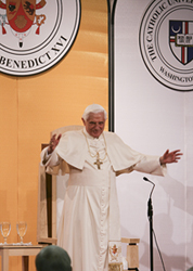 Pope Benedict XVI speaking at CUA